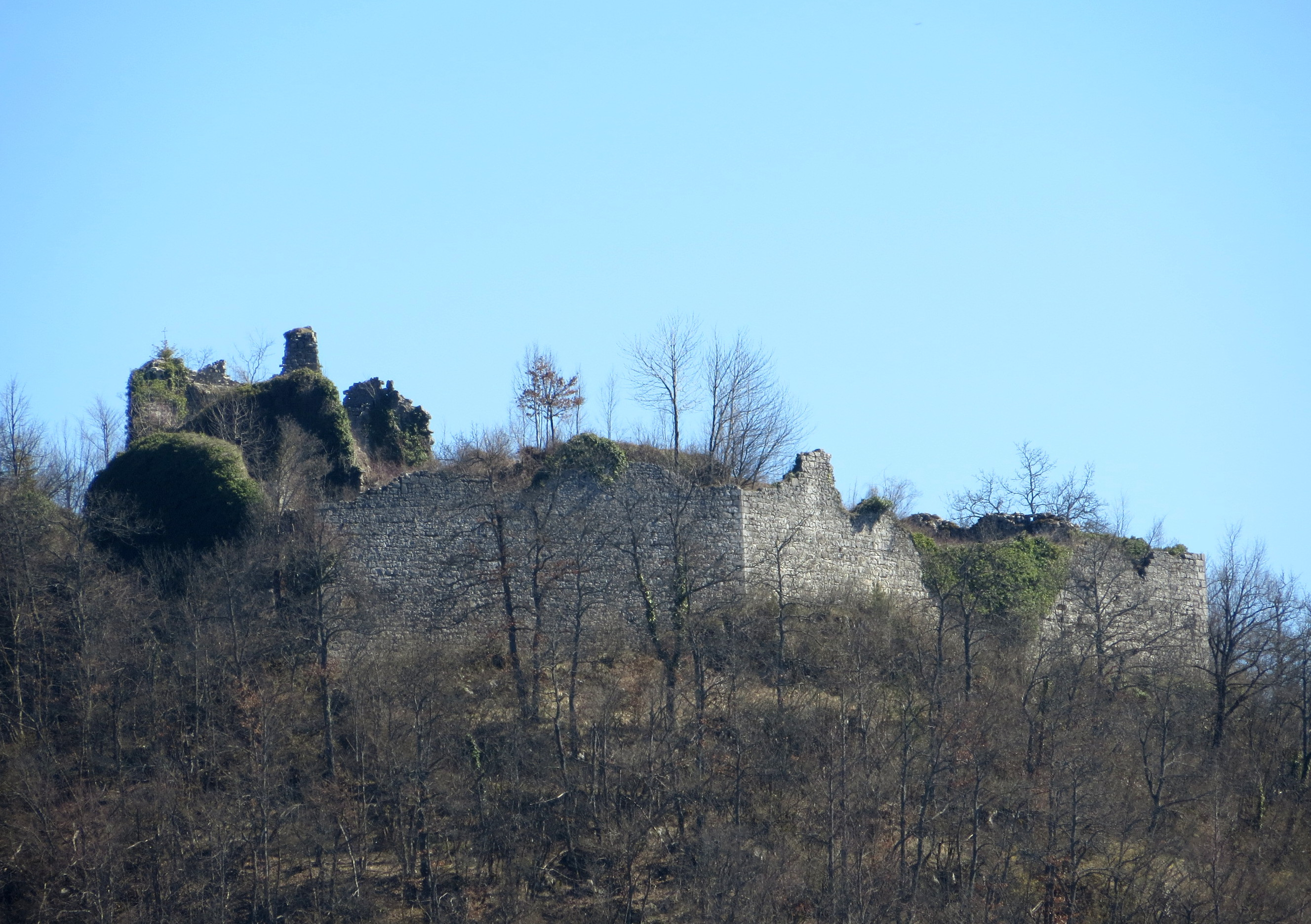 Lož Castle in Lož, Municipality of Loška Dolina, Slovenia